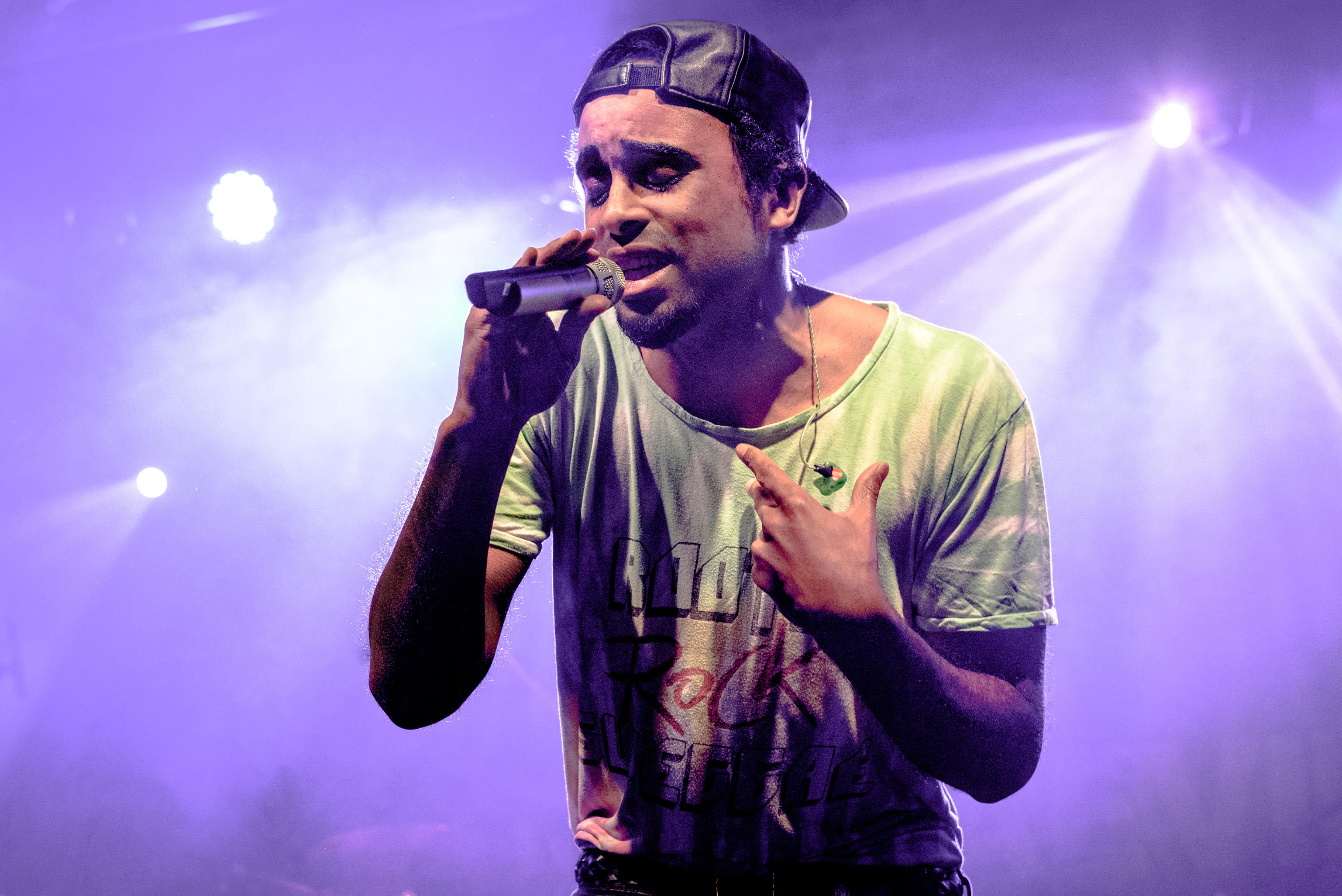 Patrice Babatunde Bart-Williams Live @ Munich 2016